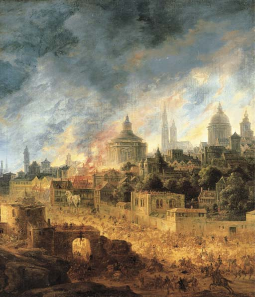 Sack of Troy